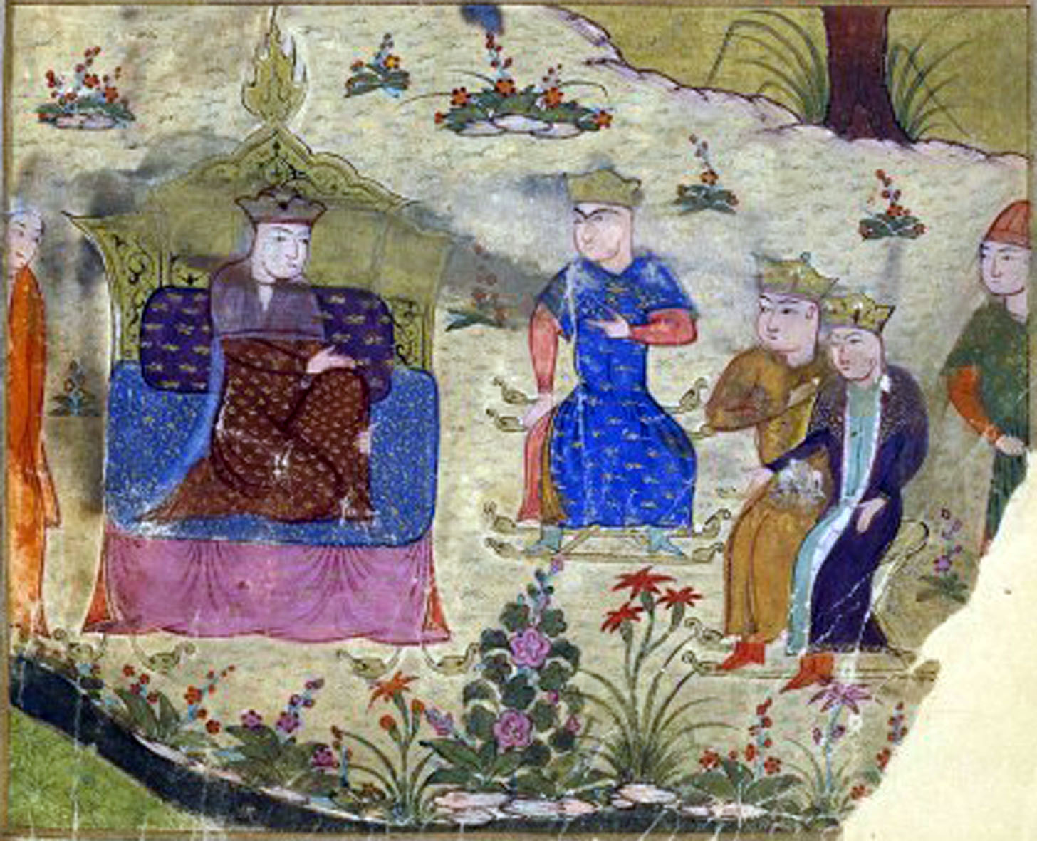 Alan Goaand her sons. Jami' al-tawarikh, Rashid al-Din.